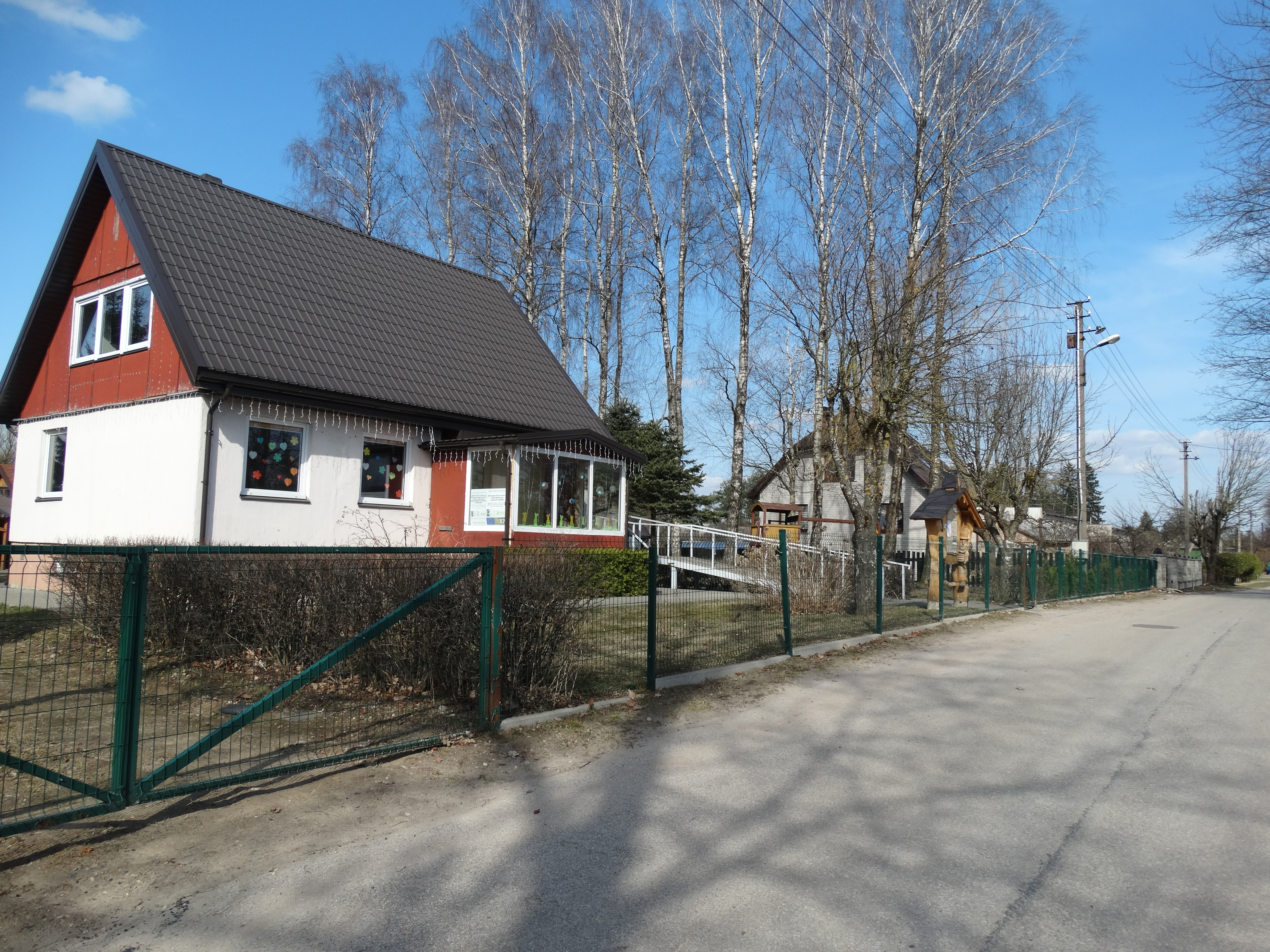 Jūrė village, community house, Kazlų Rūda municipality, Lithuania